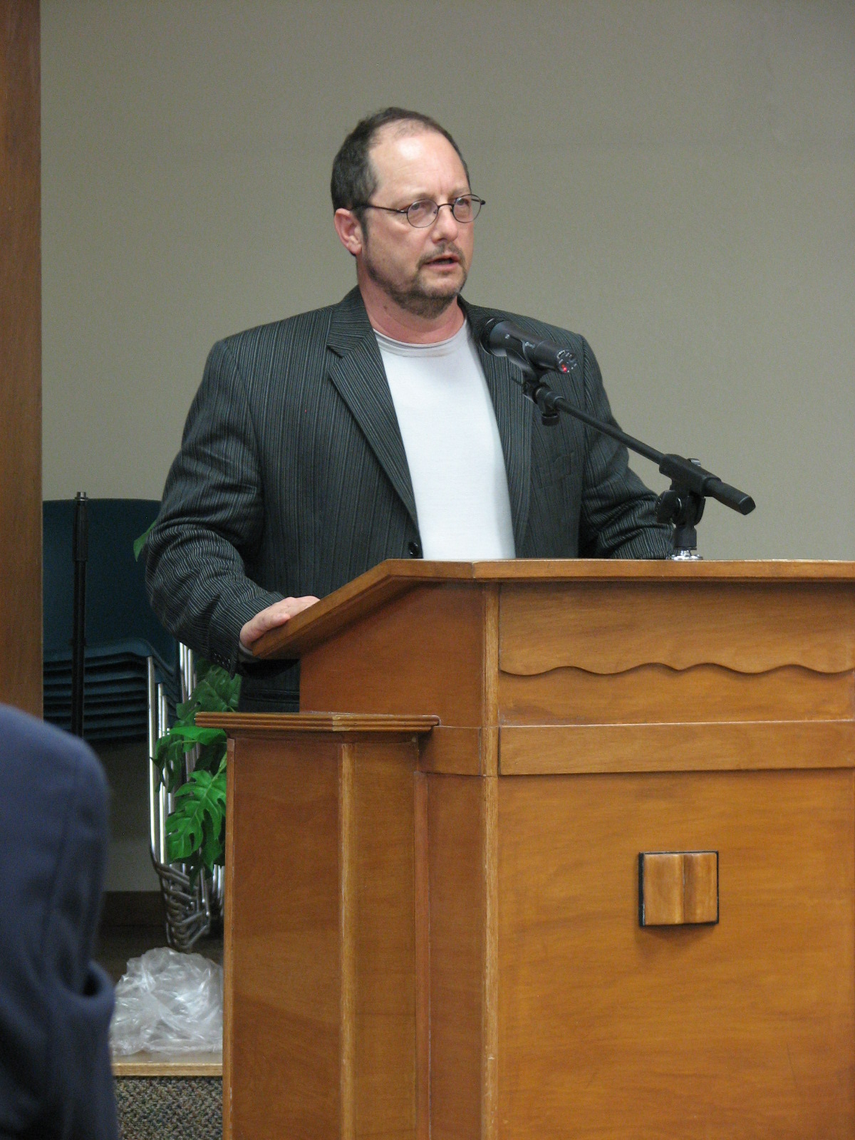 Bart Ehrman